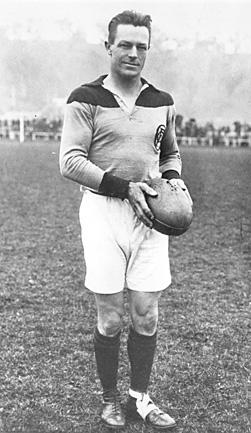 Australian footballer Horrie Gorringe during his spent on Cananore F.C.